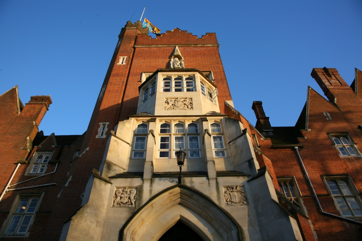 Photo originally taken by Naveed Barakzai/Maxal Photography. Copyright still held by Naveed Barakzai/Maxal Photography, but licenced under Creative Commons ShareAlike 2.5. The OTRS system has been contacted with the relevant permission information.